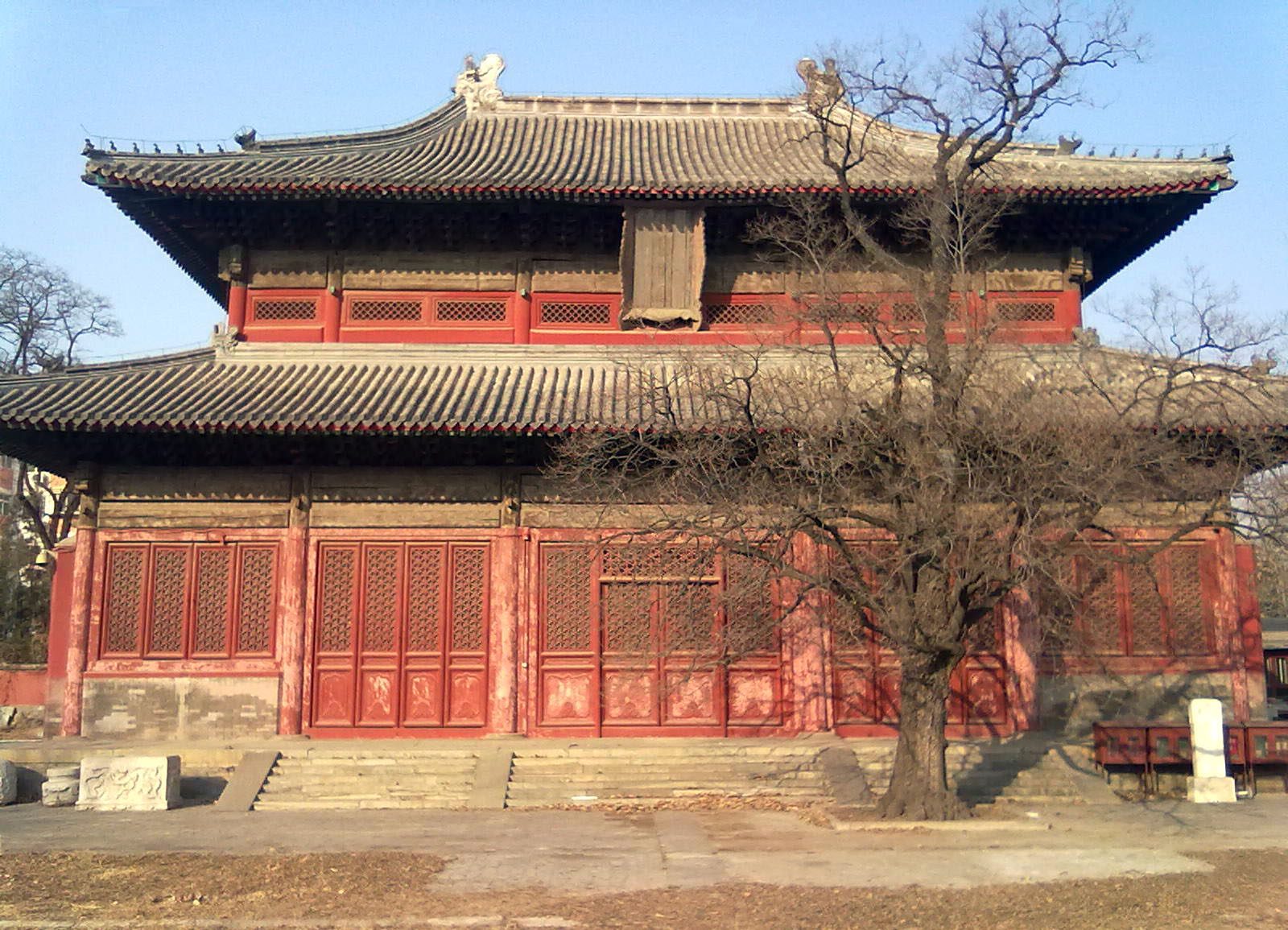 The Dahui Temple (Chinese: 大慧寺), literally Temple of Great Wisdom, is a Ming Dynasty Buddhist temple located in Beijing. It is located in the western Haidian District of the city. It lies in the street Dahui Lu Si near the road Xueyuan Nan Lu. It was first built in 1513, and restored in 1757. The temple is known for its Buddhist sculptures: 28 colored Buddhist statues, all over three meters tall. These carving are described to be great works of art of the Ming era.